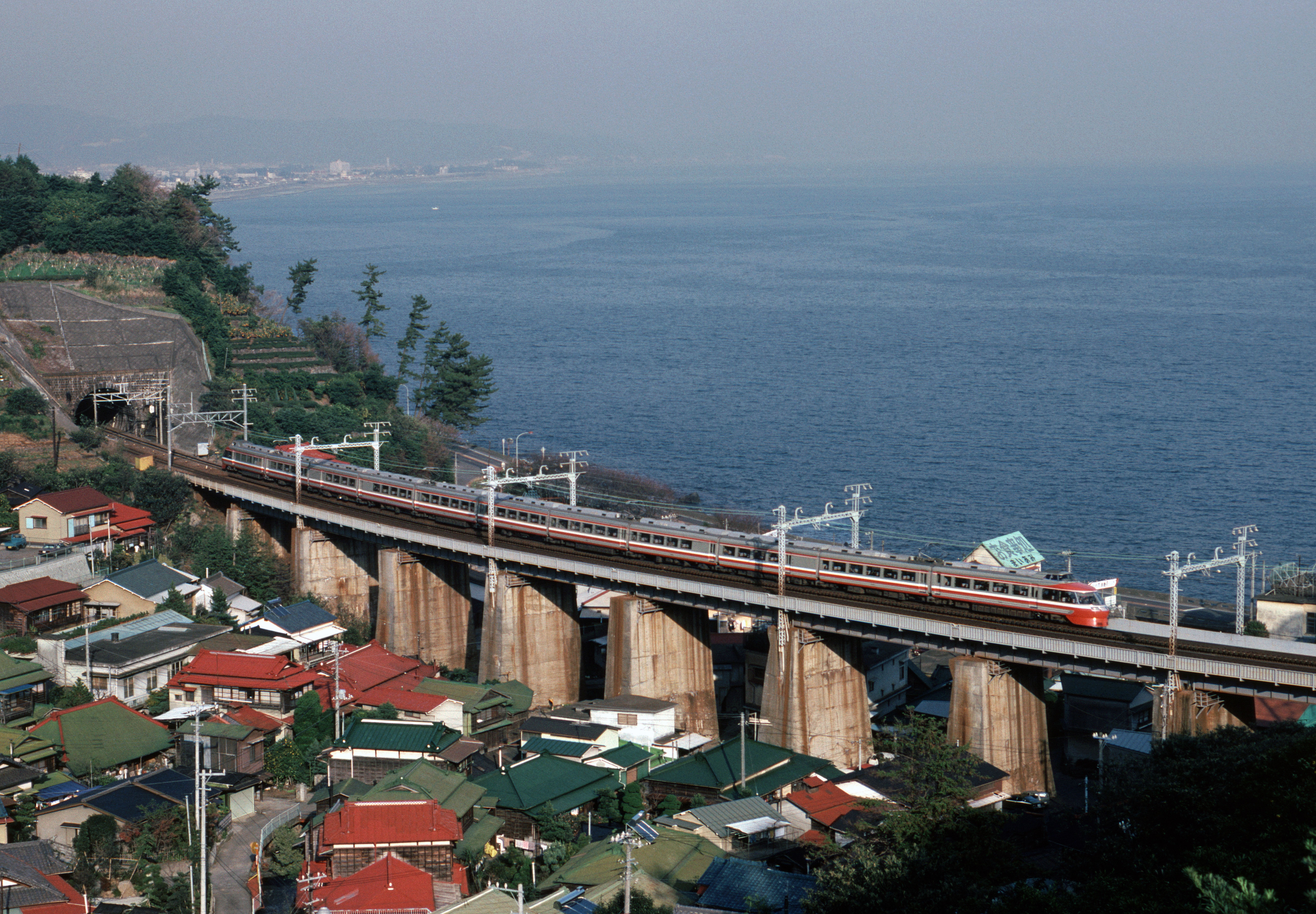 Odakyu Electric Railway 7000 Series EMU on the high speed test run by Japanese National Railways seen between Hayakawa and Nebukawa in Tokaido main line.